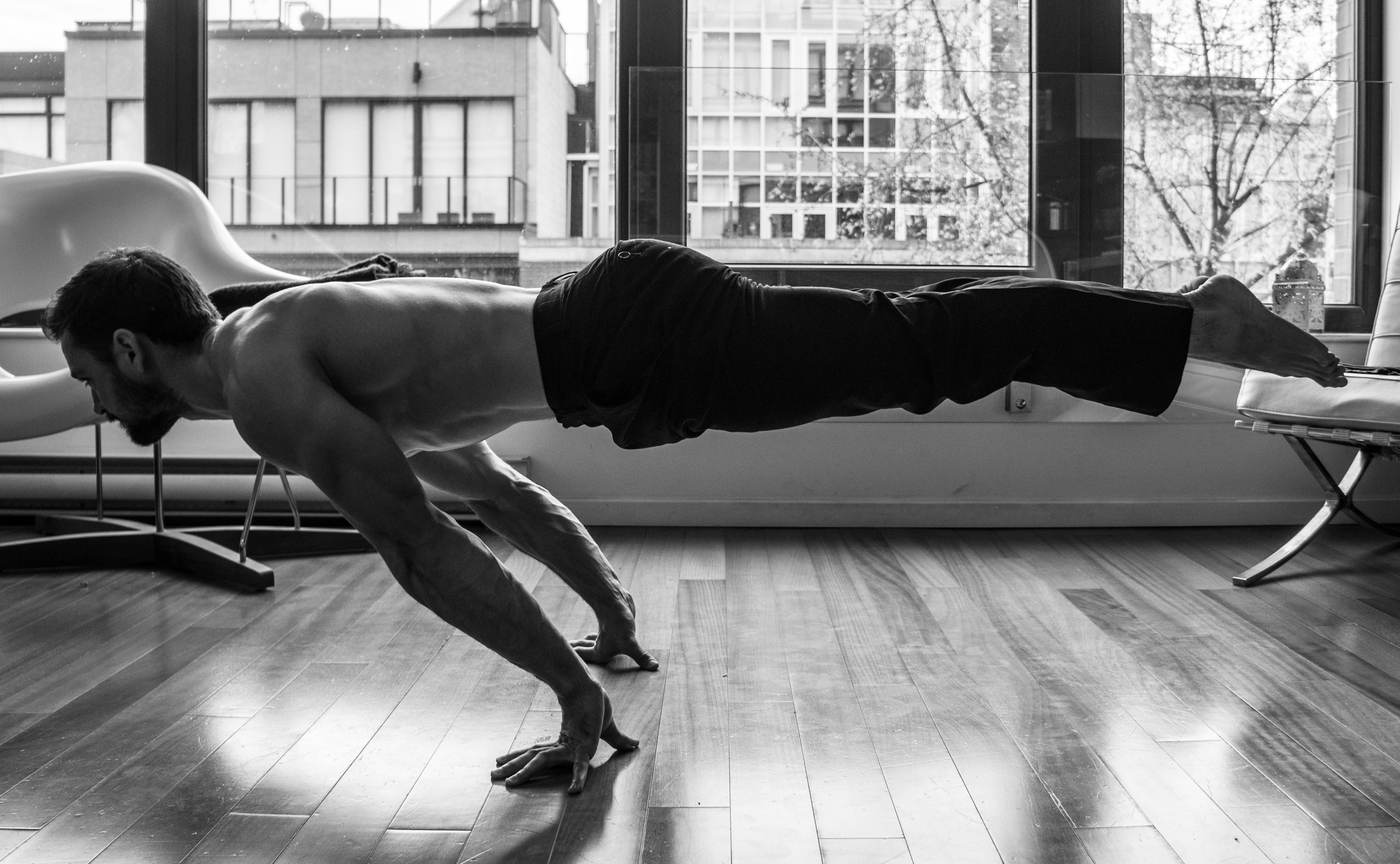 The planche is a strength gymnastics move. It can be performed of the floor, or on the rings or parallel bars. This movement is also used in hand balancing, and bodyweight strength trainees use it to improve their strength.